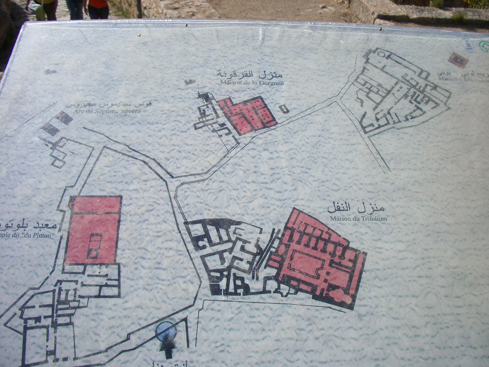 Dougga trifolium